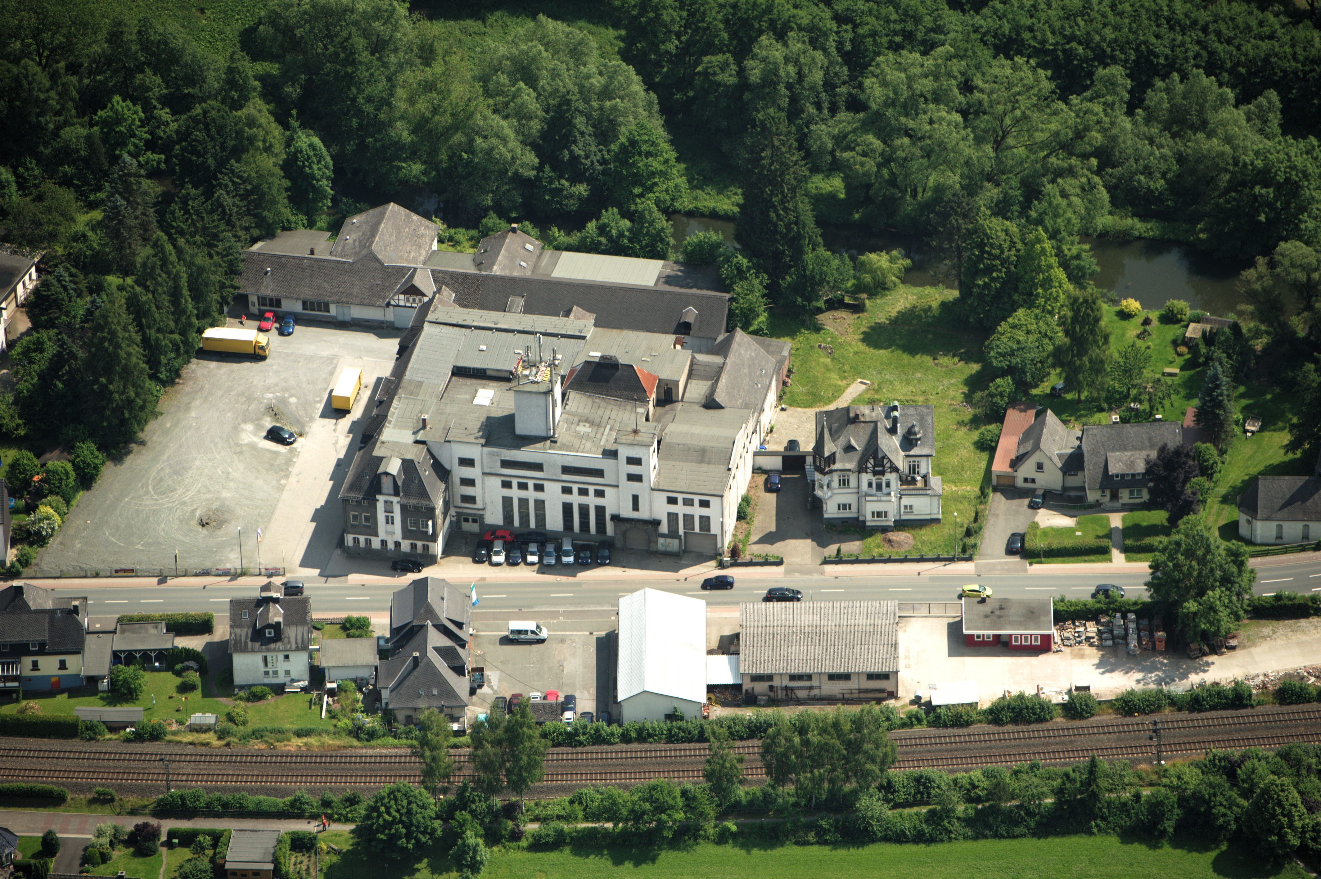 Fotoflug Sauerland-Ost – Nuttlar (ehemalige Spirituosenfabrik Schneider) The making of this document was supported by the Community-Budget of Wikimedia Germany.